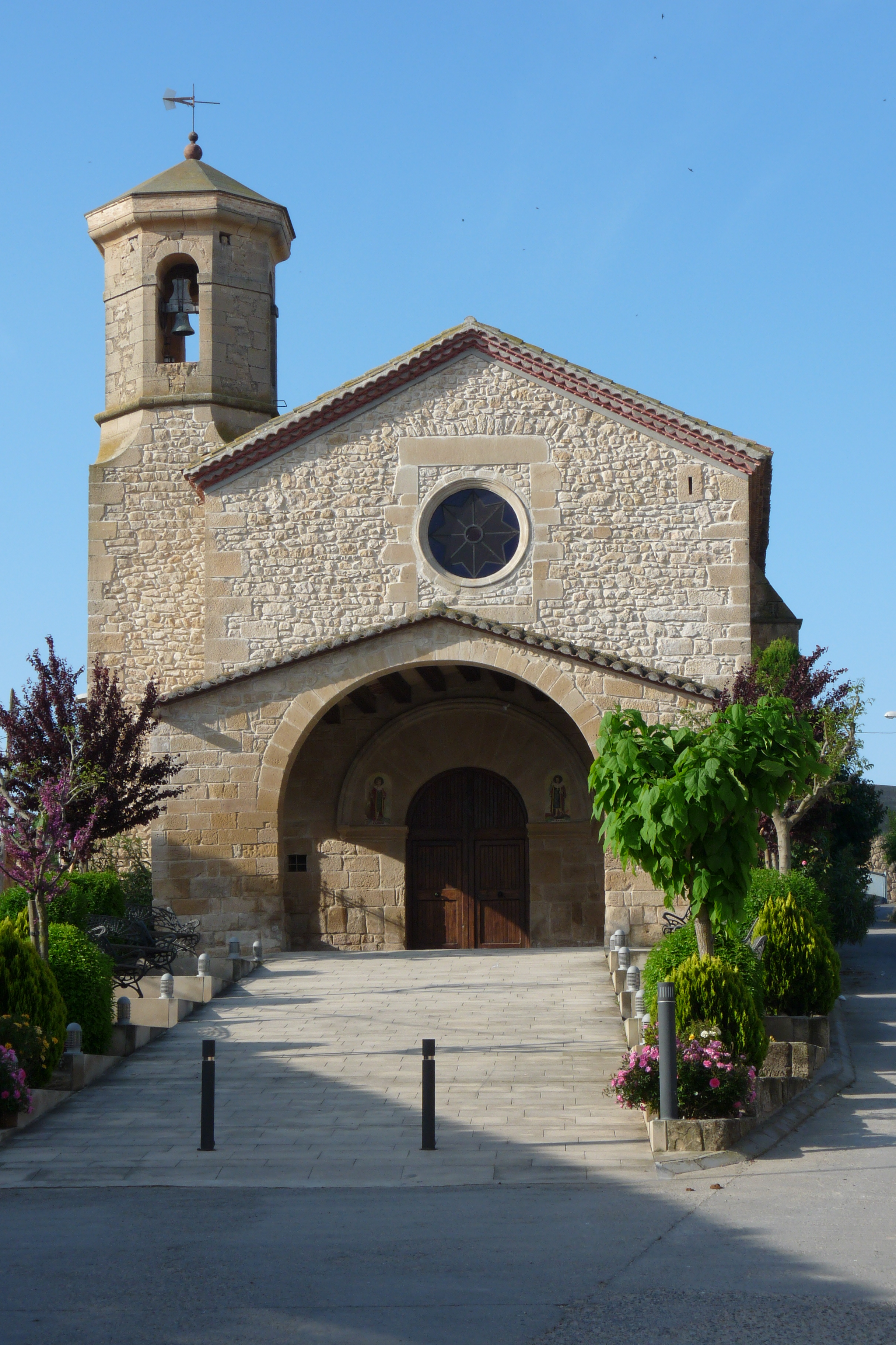 Hermitage of Sant Cosme and Sant Damià, l'Albi